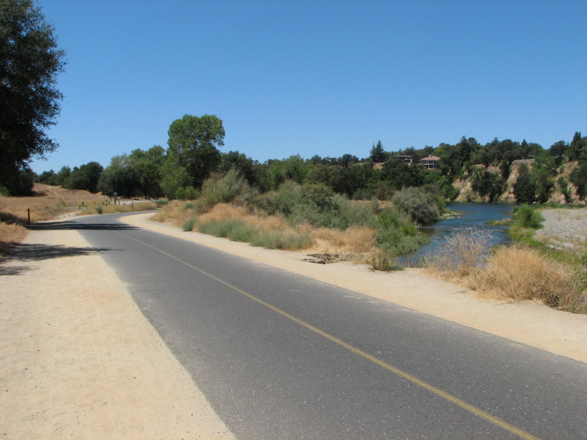 American River Bike Trail, just east of the Bridge St entrance, at approximately Mile 21.